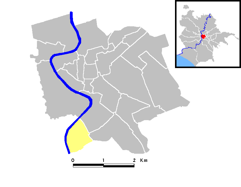 Locator maps of Rome (rioni)